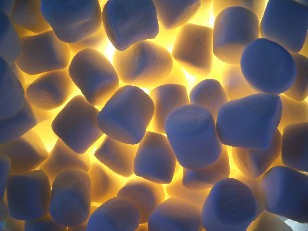 Marshmallows